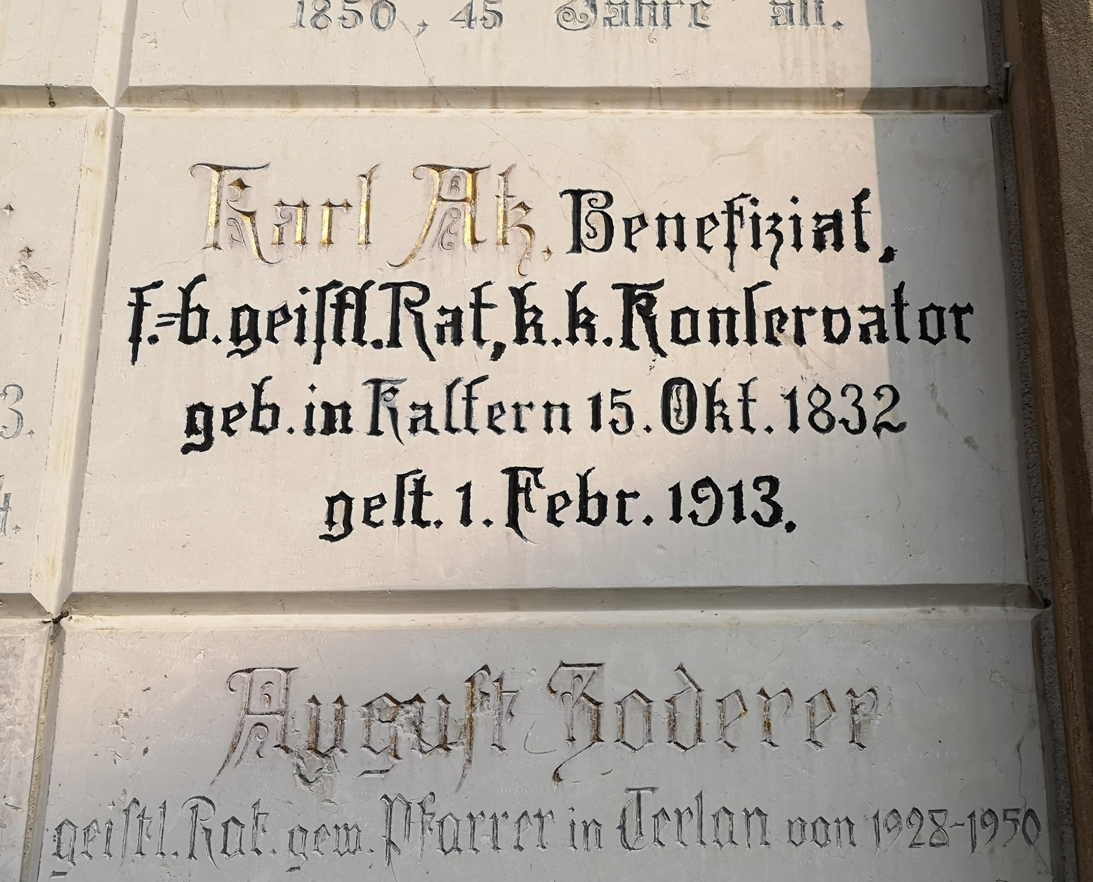 Memorial plaque for Karl Atz Terlan South Tyrol